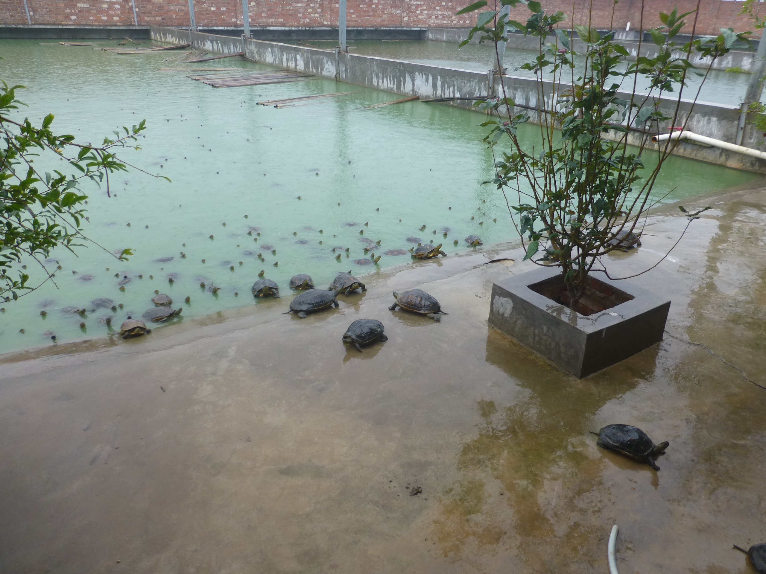 At the Donghai Island Guitou Turtle Farm. Permission of Ms. Lu Qiping to visit the facility and take photographs is gratefully acknowledged.